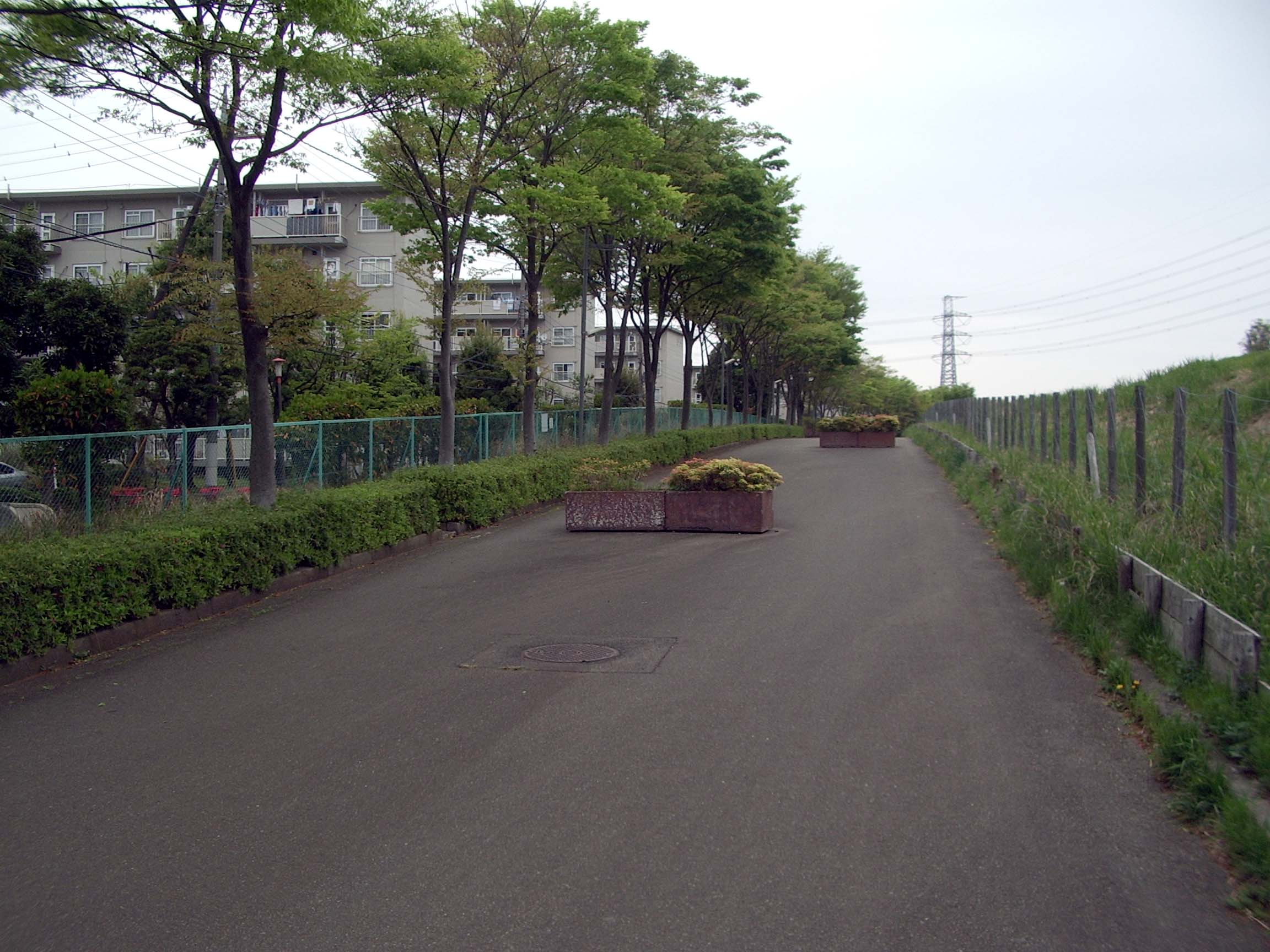 Onekansen, Suwa, Tama, Tokyo